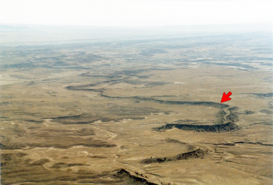 Aerial view of an exhumed river channel in Emery County, Utah, about eight miles south-southeast of Green River. The channel now remains as a meandering sandstone ridge exposed after erosion of the softer surrounding mudstone.